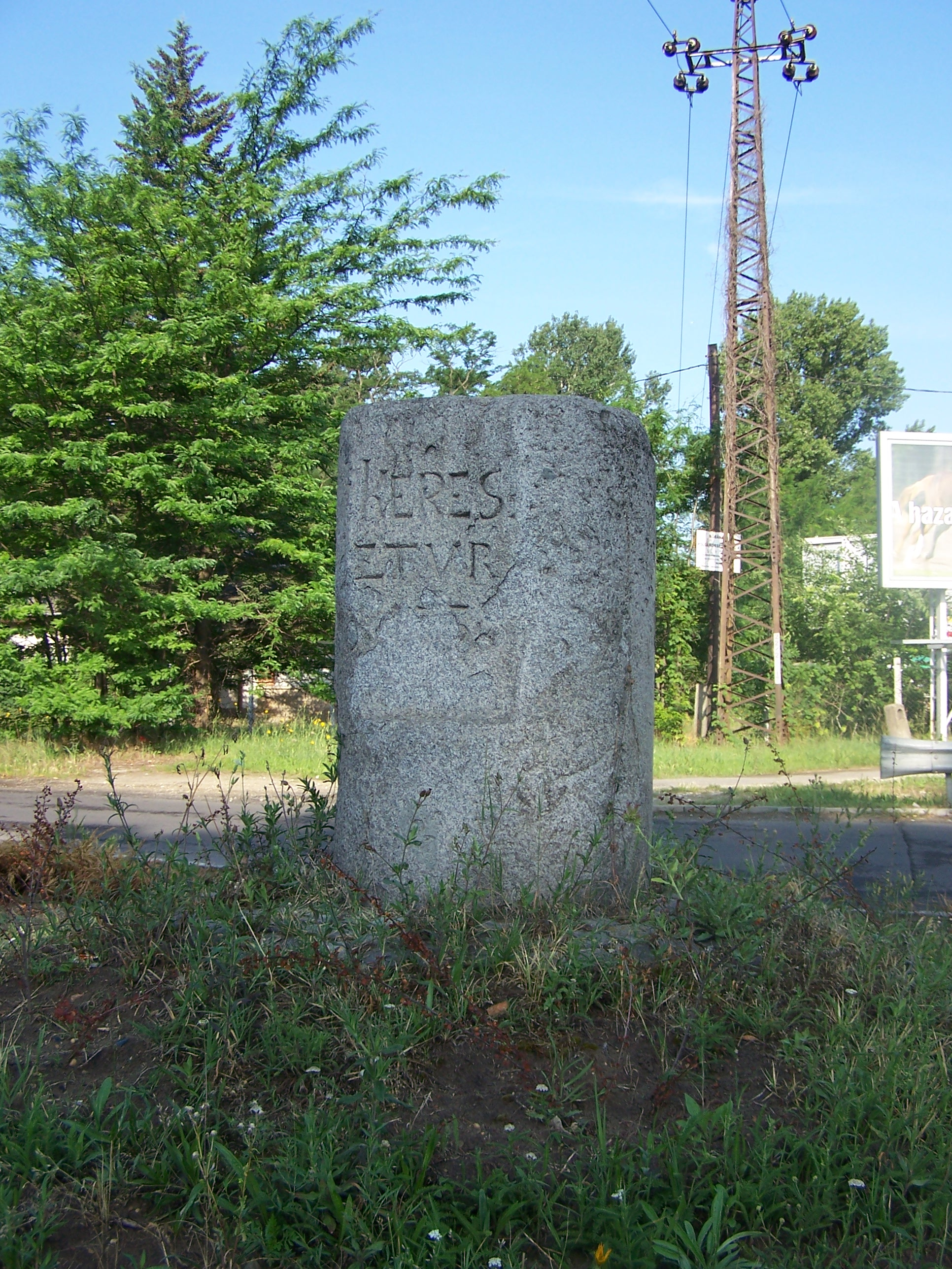 No. 39 boundary stone on the boundary of Keresztúr (Rákoskeresztúr) és Pest (1738) near present-day Határhalom utca; at present located in Budapest district XVII, Akadémiaújtelep, at the crossing of 526. sor and Jászberényi u.